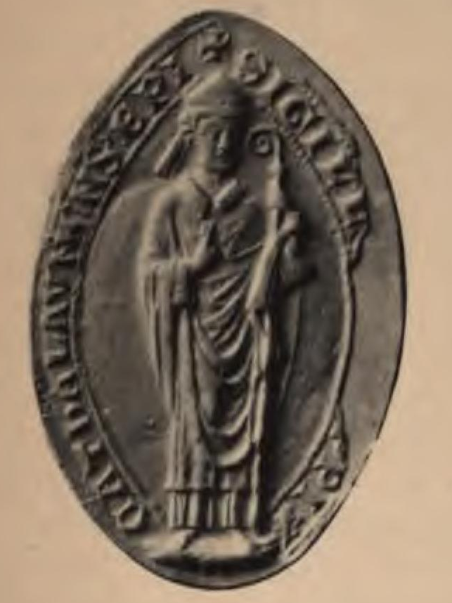 Seal belonging to Philip II, died 1237.